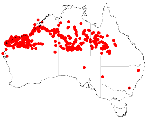 Acacia bivenosa Occurrence data from Australasian Virtual Herbarium downloaded from on 8 December 2018